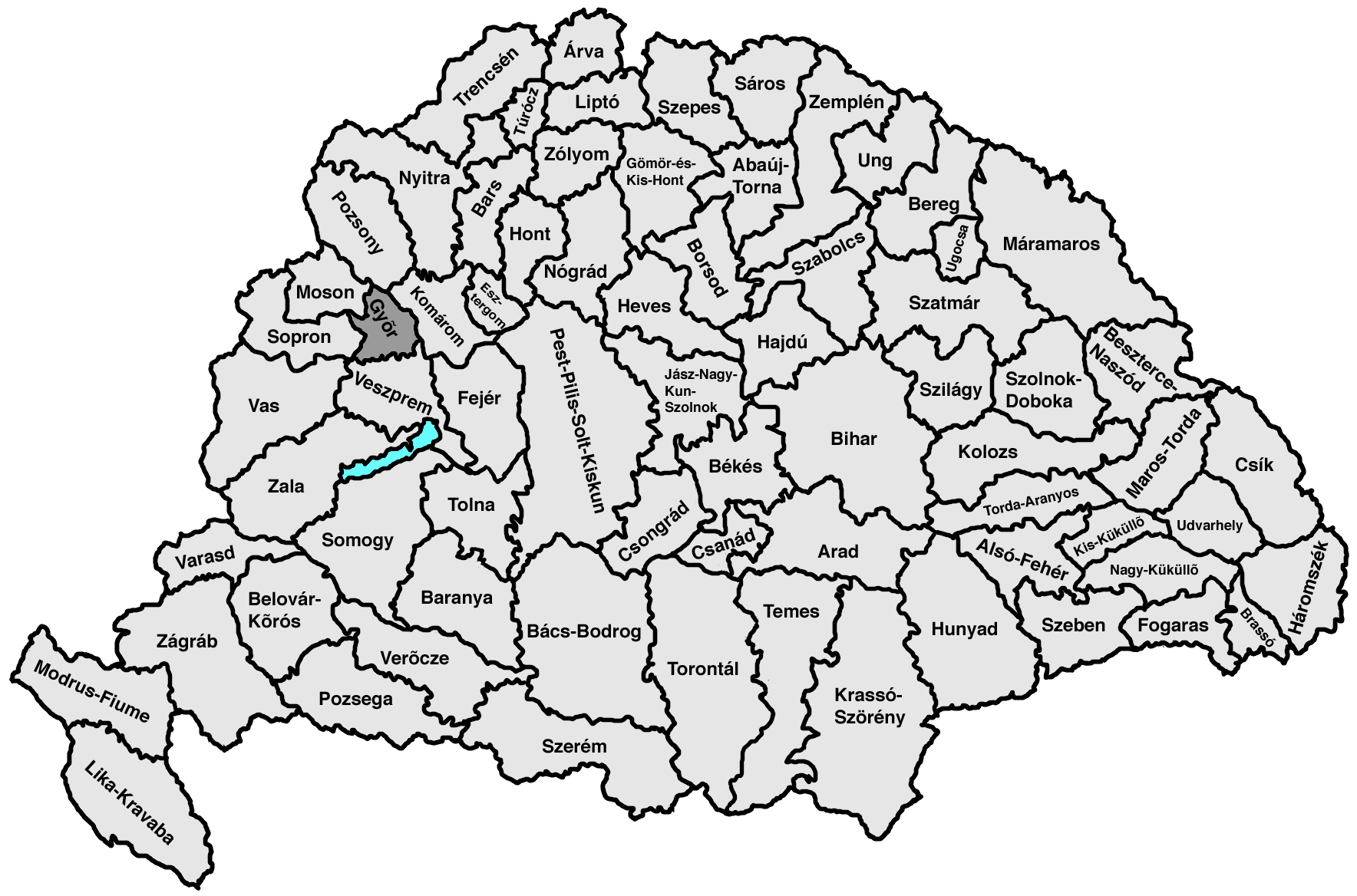 map of the Hungarian kingdom and its counties, county of Győr highlighted